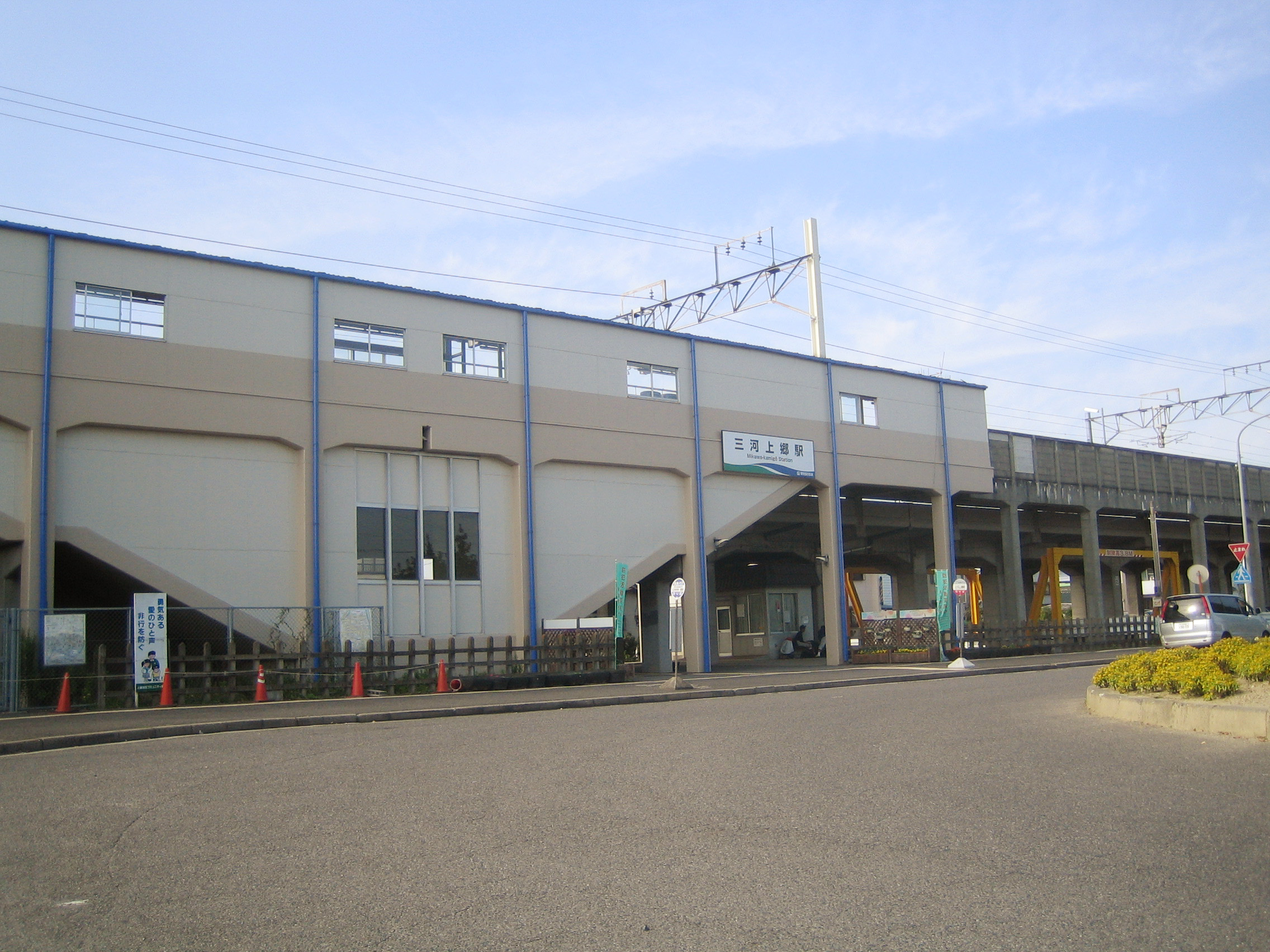 Mikawa-kamigo Sta. (三河上郷駅), at Toyota, Aichi, Japan